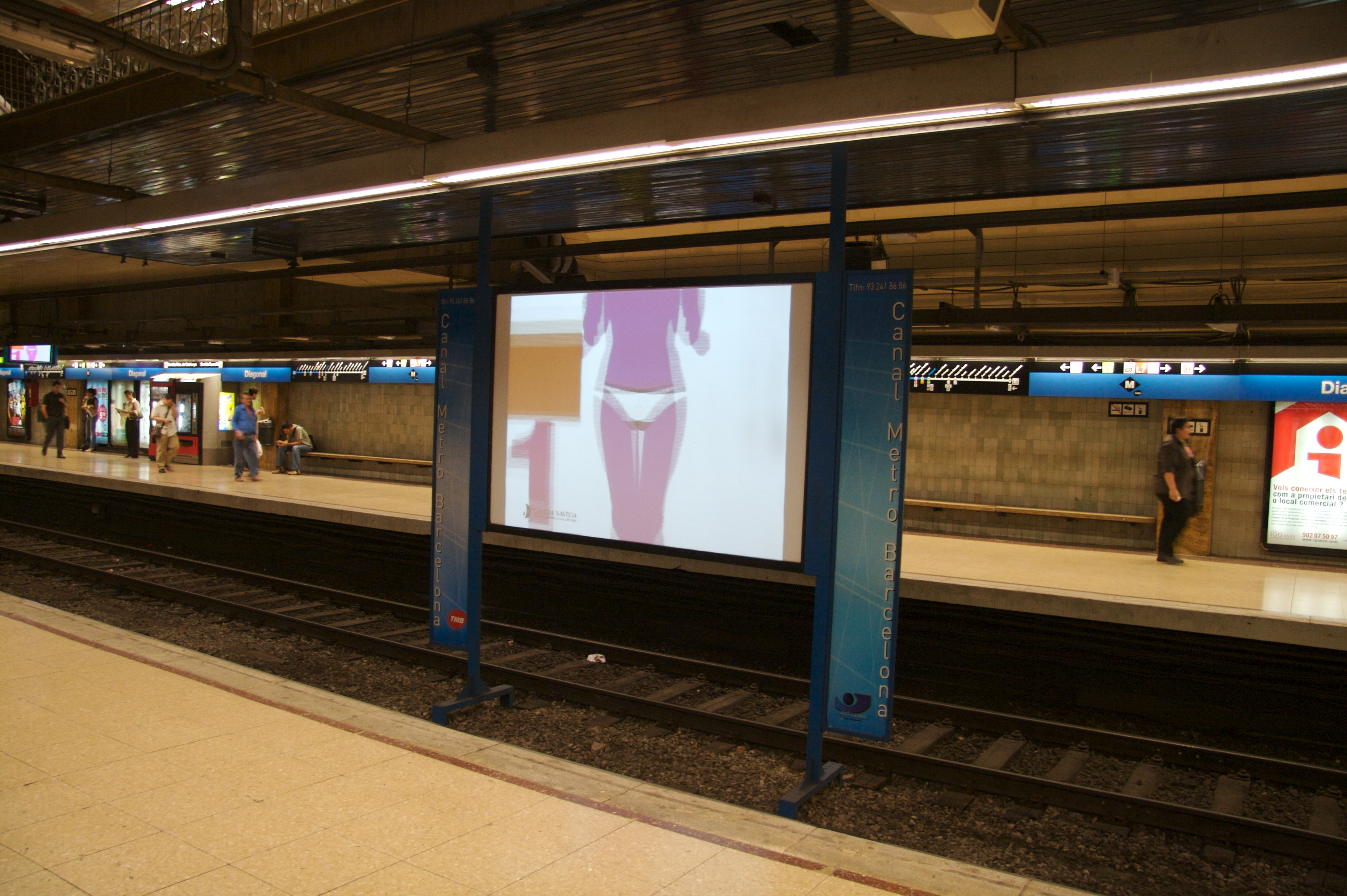 They had these screens in a few stations. They just show ads all the time. Crazy.